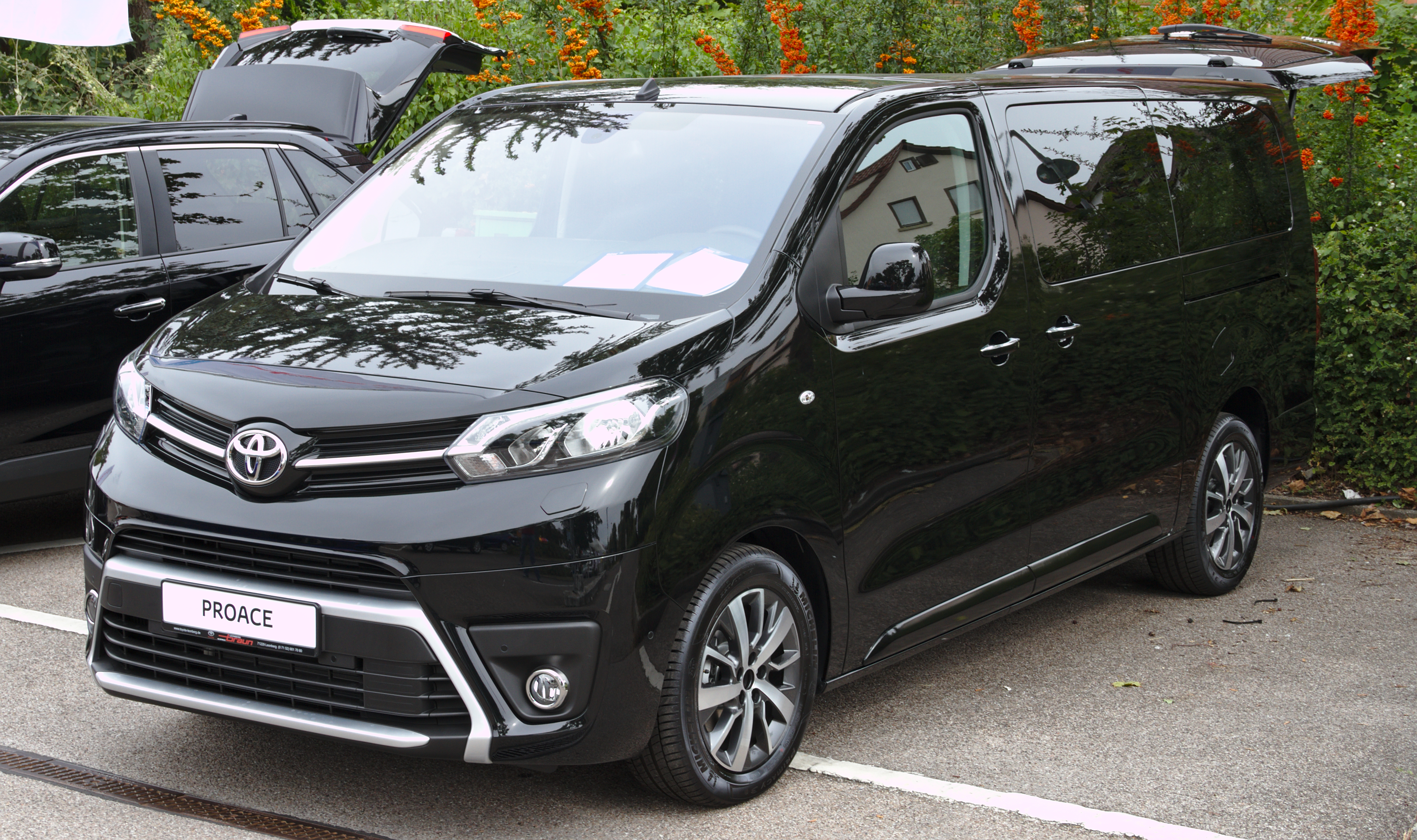 Toyota_ProAce_Verso at Leonberger Autoschau 2019